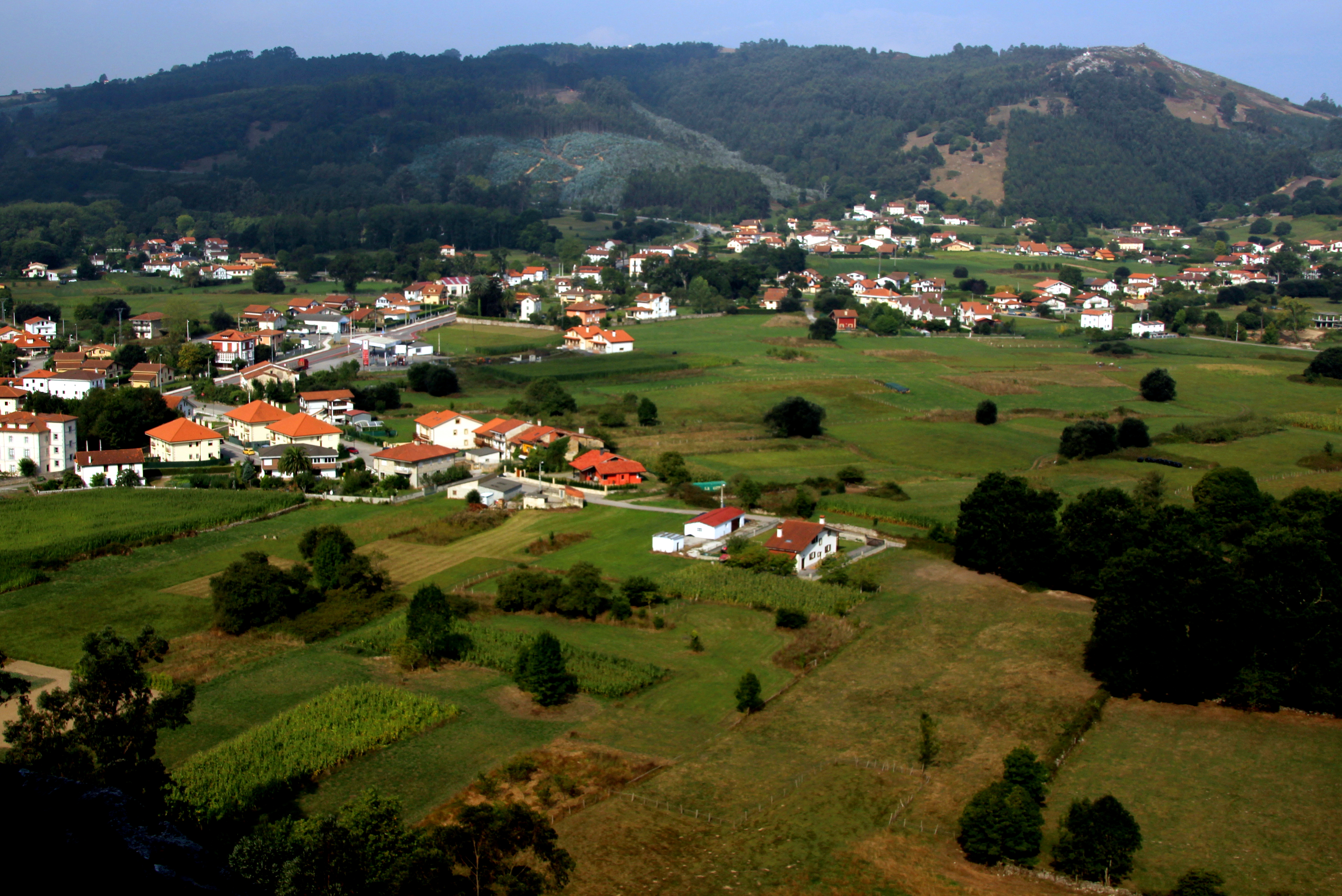 Liendo valley, in Cantabria (Spain).